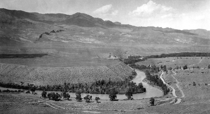 South Fork Shoshone River. Panorama with image 1299. View showing second and third terraces (left and middleground) and second terrace (?) at right. Dike at left cutting shale below mountains of volcanic breccia. Absaroka Mountains. Park County. July 5, 1923. Digital File:awc01300 ID. Alden, W.C. 1300 Original found at [1] using keywords "Shoshone," "South" and "Fork." Image uploaded to illustrate article entitled "Stream terrace."